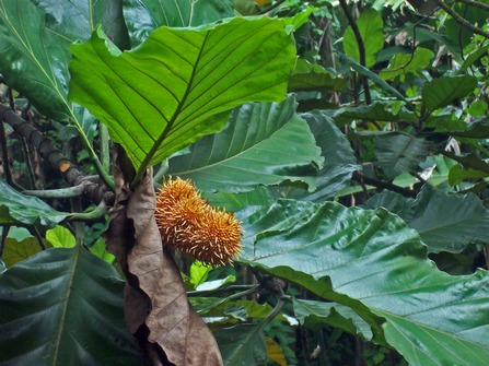 Artocarpus elasticus leaves and fruit, Jogyakarta, Indonesia